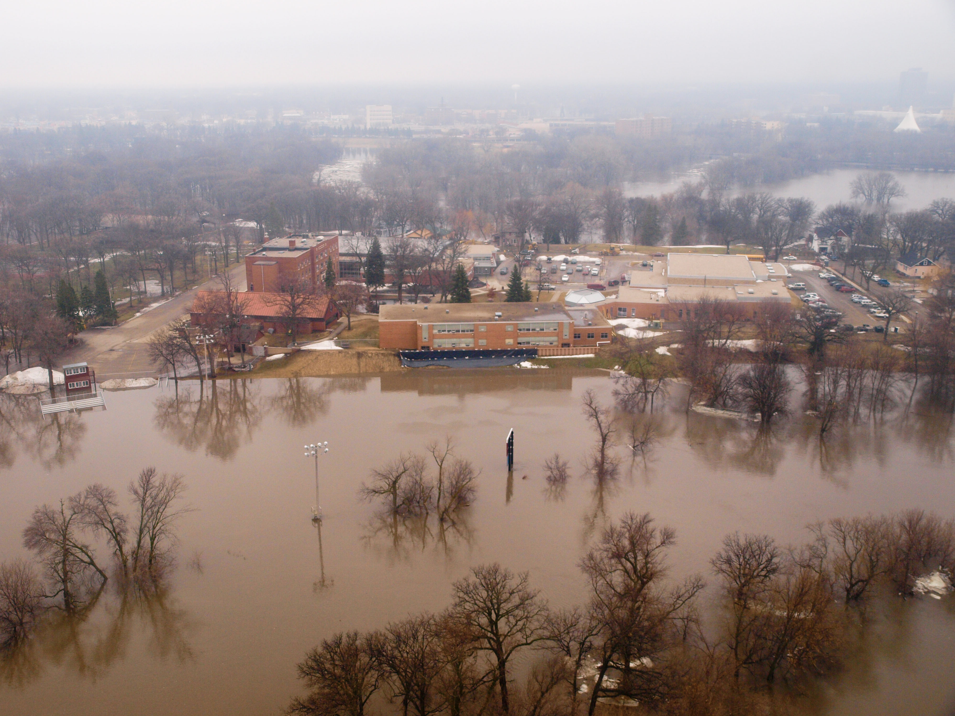 Fargo, ND, March 24, 2009 -- US Coast Guard flyover to survey the Red River flooding. Photo: Michael Rieger/FEMA